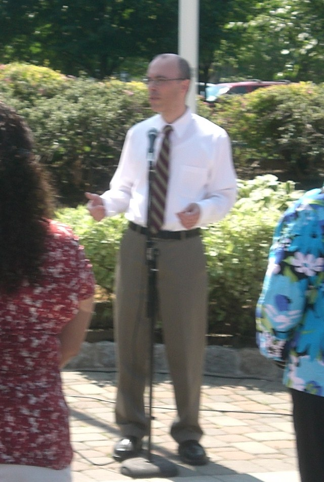 Kearny Mayor, Alberto Santos, addressing a crowd during the Portugal Day celebrations in Kearny, NJ.